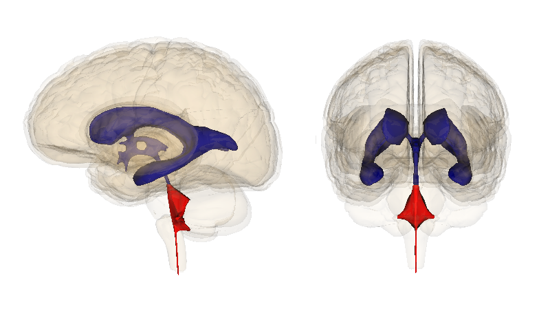 fourth ventricle. Images are from Anatomography maintained by Life Science Databases(LSDB).